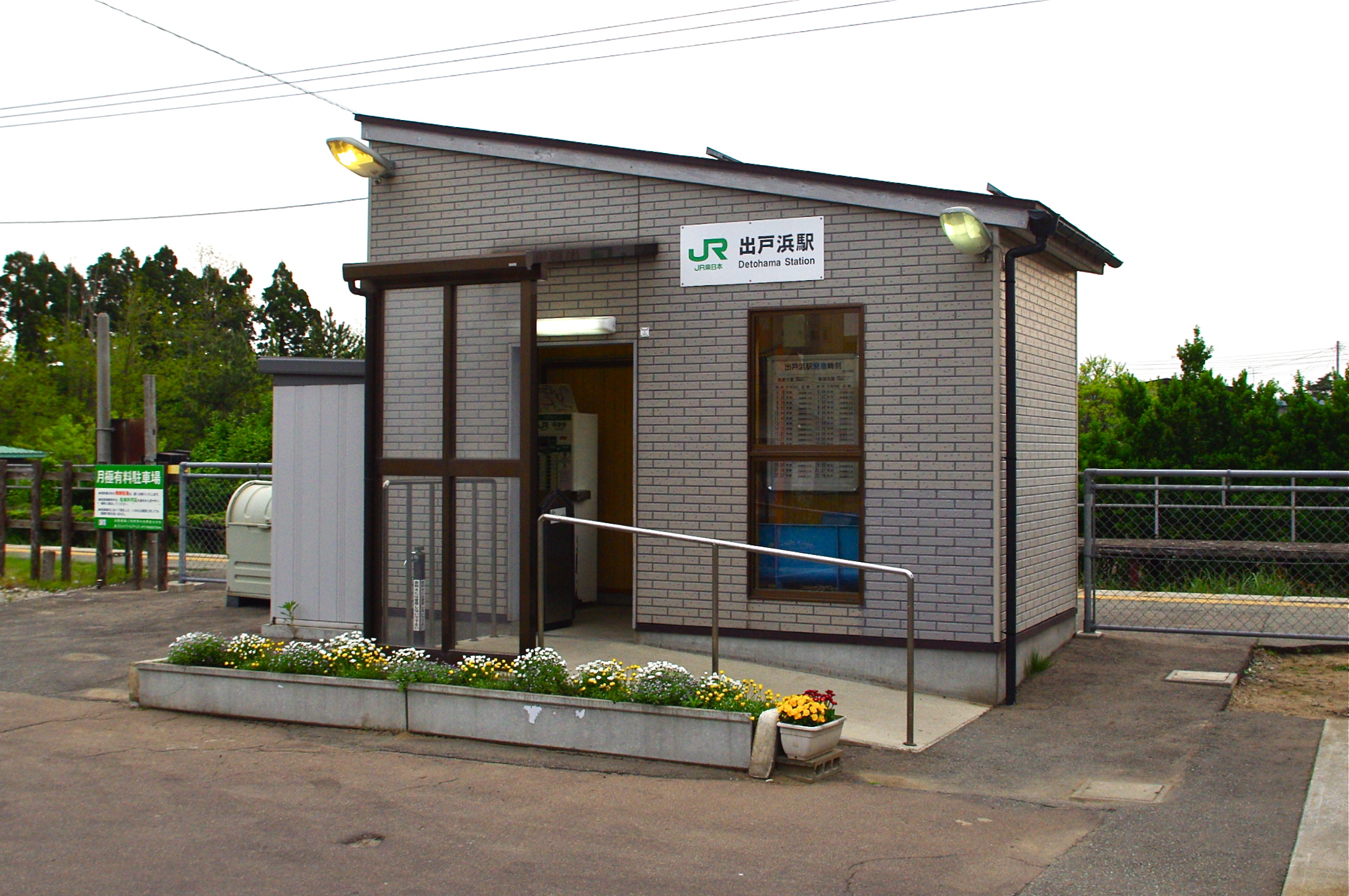 Oga Line Detohama Station